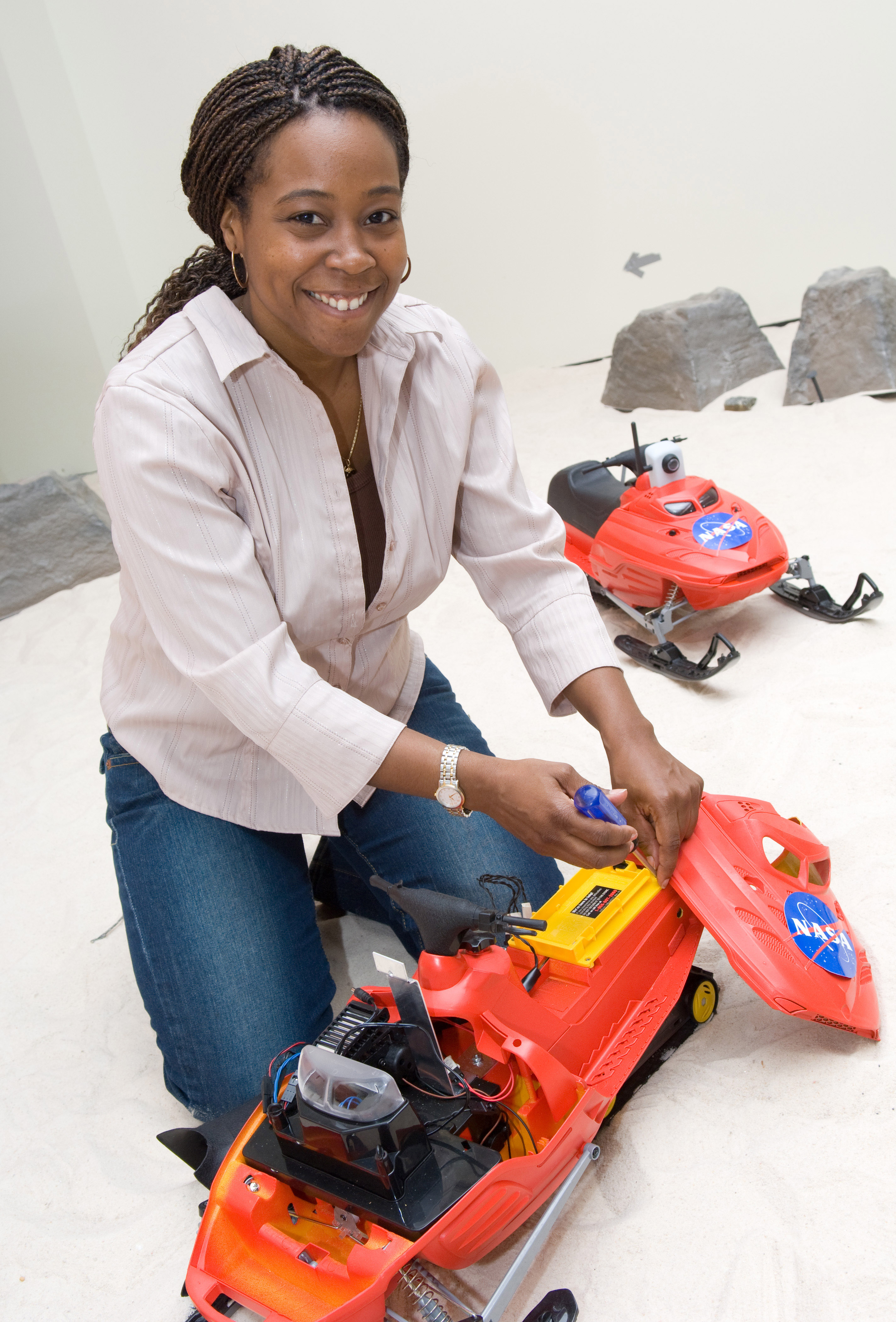 Ayanna M. Howard, Associate Professor at the Georgia Institute of Technology, with a SnoMote. See here